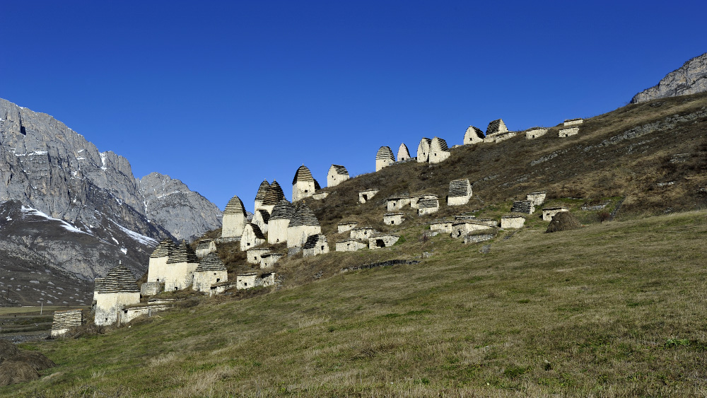 Dargavs